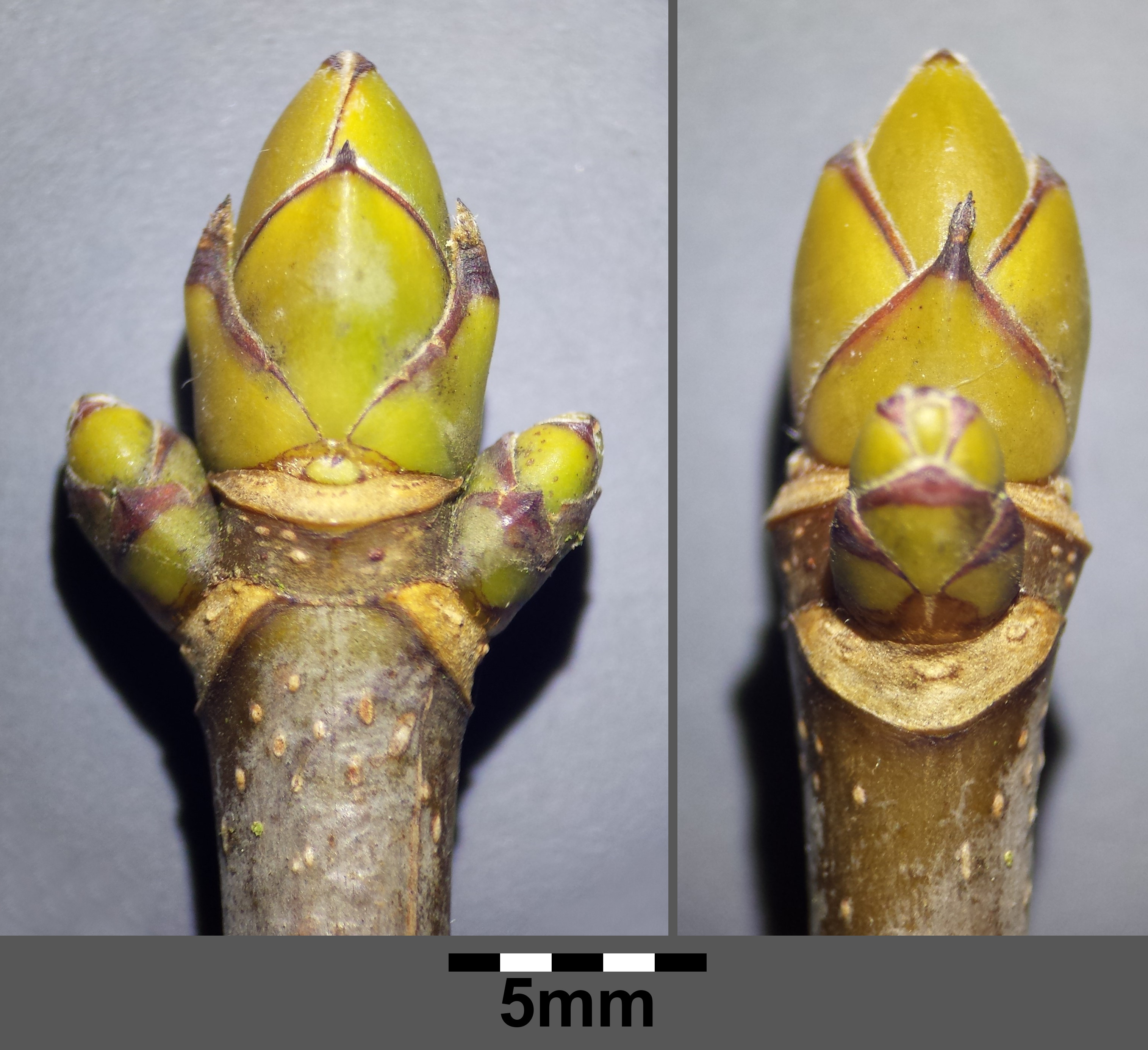 Buds Taxonym: Acer pseudoplatanus ss Fischer et al. EfÖLS 2008 ISBN 978-3-85474-187-9 Location: Rohrwald, district Korneuburg, Lower Austria - ca. 300 m a.s.l. Habitat: deciduous forest